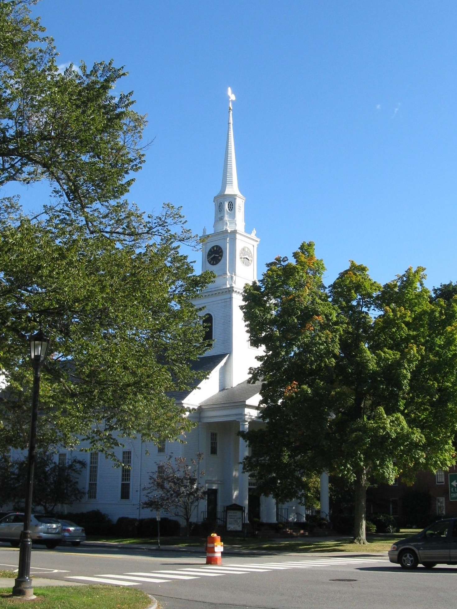 Neoclassical style First Church of Christ, Longmeadow Massachusetts